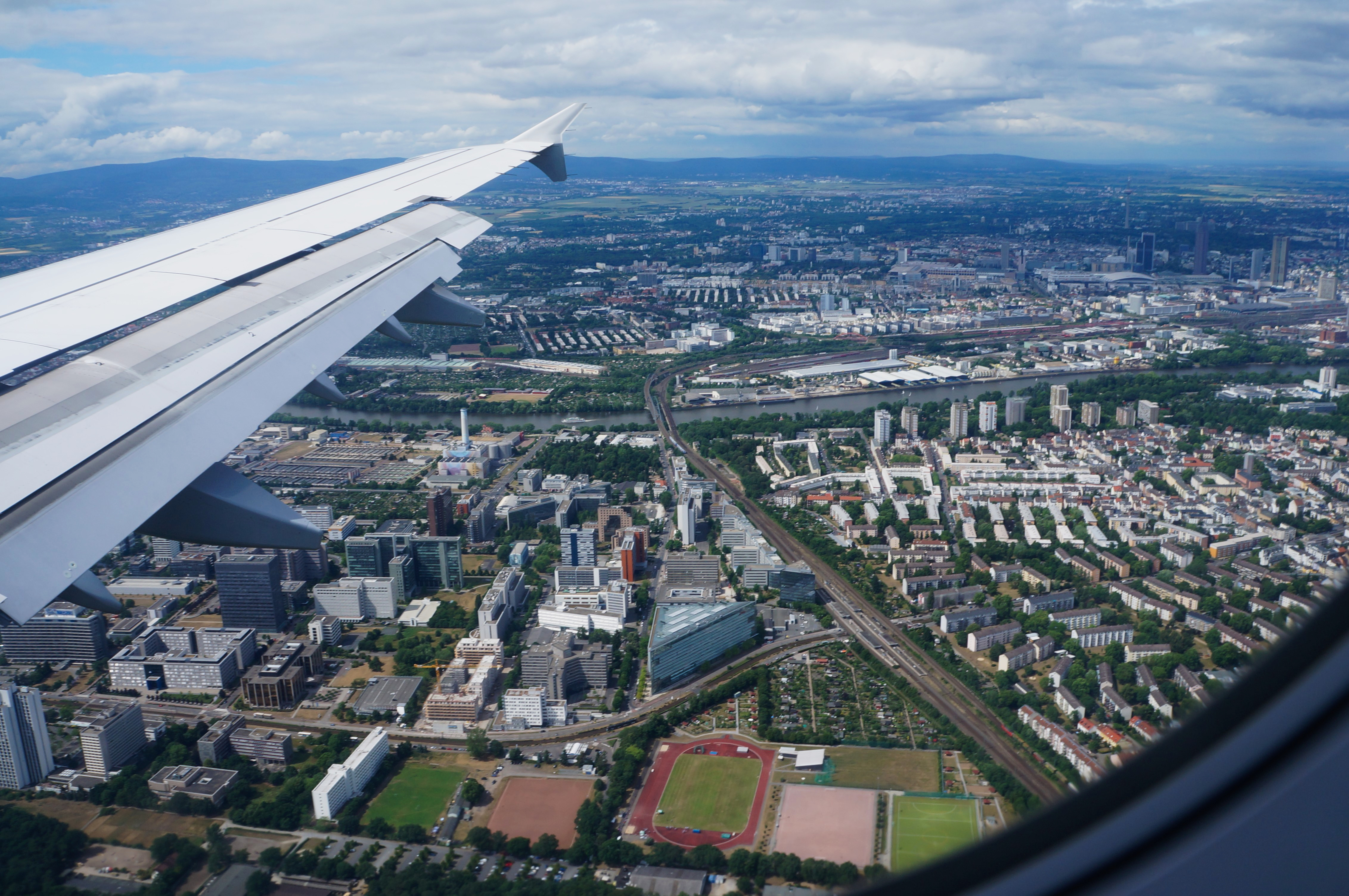 Aerial view of Niederrad, Frankfurt am Main, Germany.